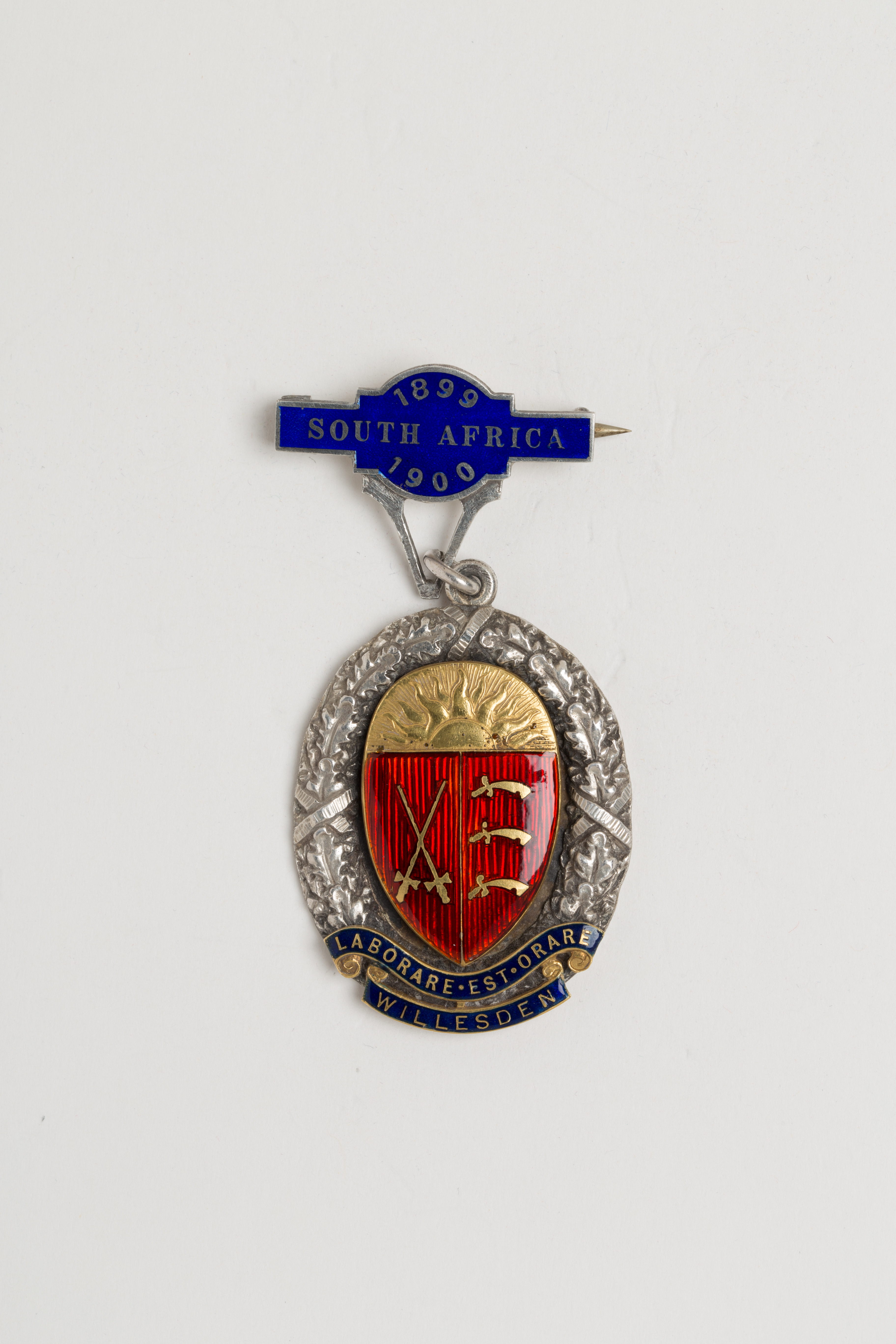 Willesden Tribute Medal, 1899-1900, Anglo Boer War Medal awarded to 476 Private John James Whyntie, City of London Imperial Volunteers, 1st Volunteer Battalion, Royal Fusiliers (CIV). silver, gold and enamel medal or badge; fixed loop and ring suspension; brooch bar of silver and enamel obverse- oval wreath of tied oak leaves in silver; at centre a gold and red enamel shield with coat of arms of town of Willesden, North London- rising sun above, crossed swords (lhs) and three knives (rhs); town's motto on gilt and blue enamel base scroll- LABORARE x EST x ORARE (To work is to pray); below a scroll with town's name- WILLESDEN brooch bar- on bar of silver and blue enamel the words- 1899 - SOUTH AFRICA - 1900 named on reverse- J.J. WHYNTIE. C.I.V. 1ST V.B. ROYAL FUSILIERS. markings- maker's name on reverse- MAPPIN BROTHERS - 220 REGENT STREET